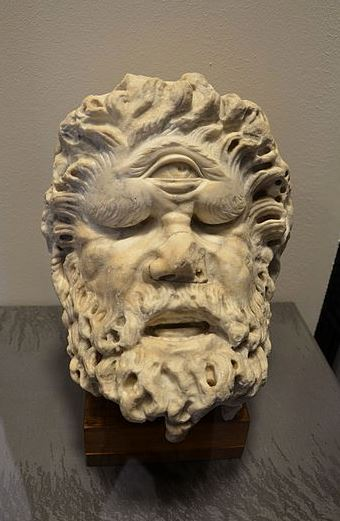 A first century CE head of a Cyclops, part of the sculptures adorning the Roman Colosseum